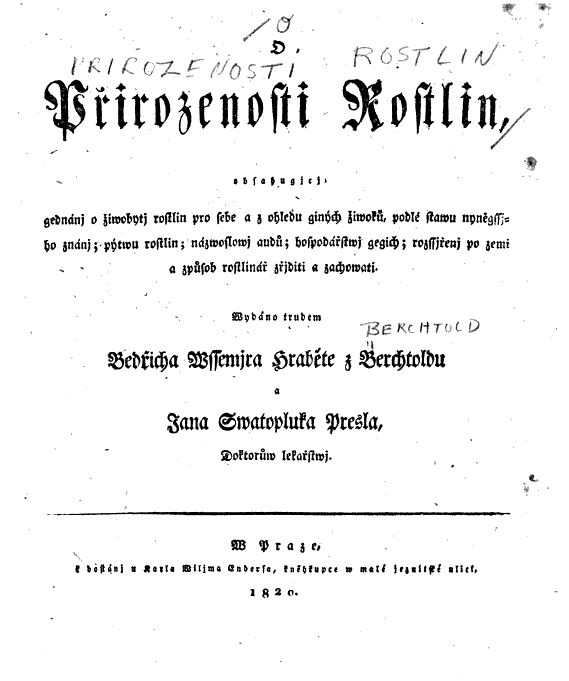 Title page of O Prirozenosti Rostlin